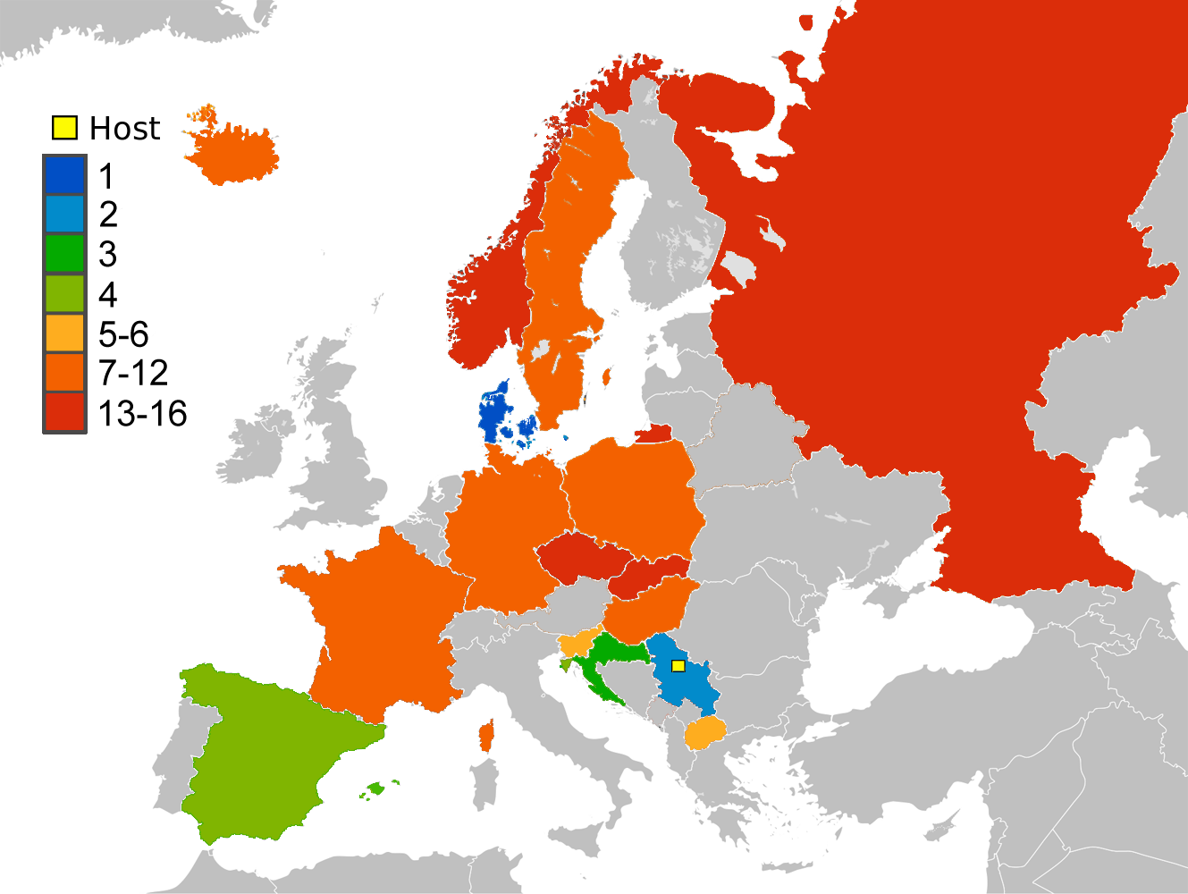 Map with result of 2012 EHF championship